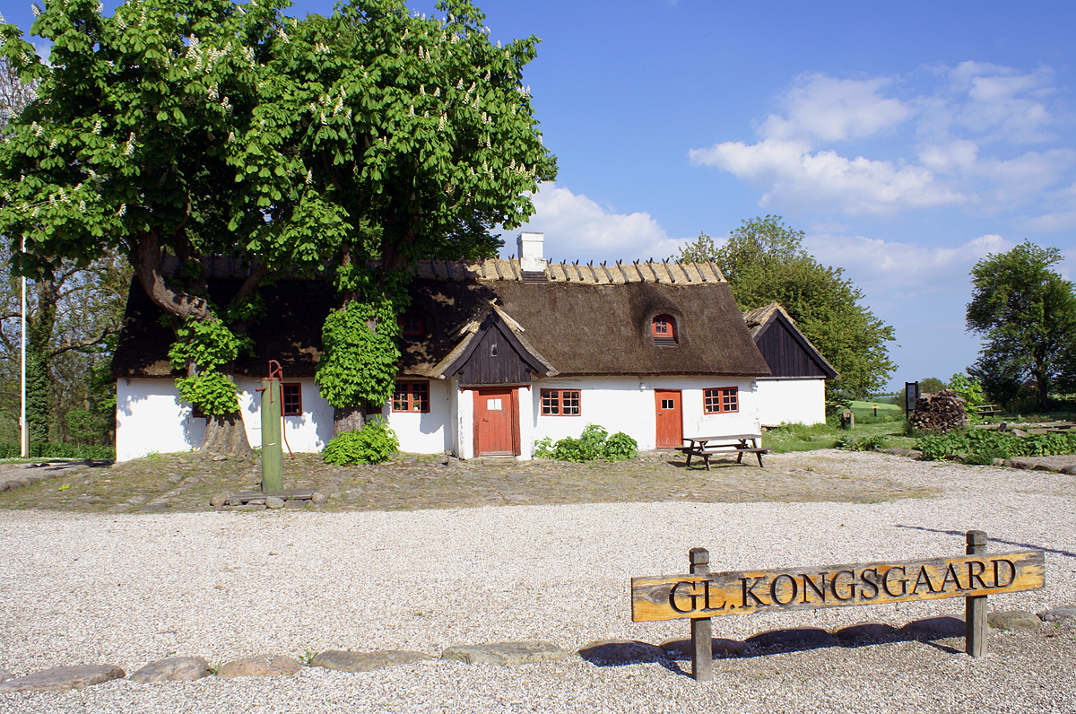 Gammel Kongsgaard, old farm-house from around 1700. Now part of Lejre Museum, Lejre, Denmark